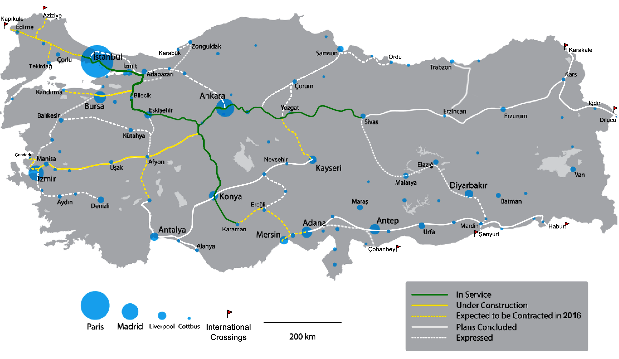 The high speed rail lines in Turkey that are built, in service, under construction, planned and expressed with cities' populations relative to each other in Turkey with some samples in Europe.